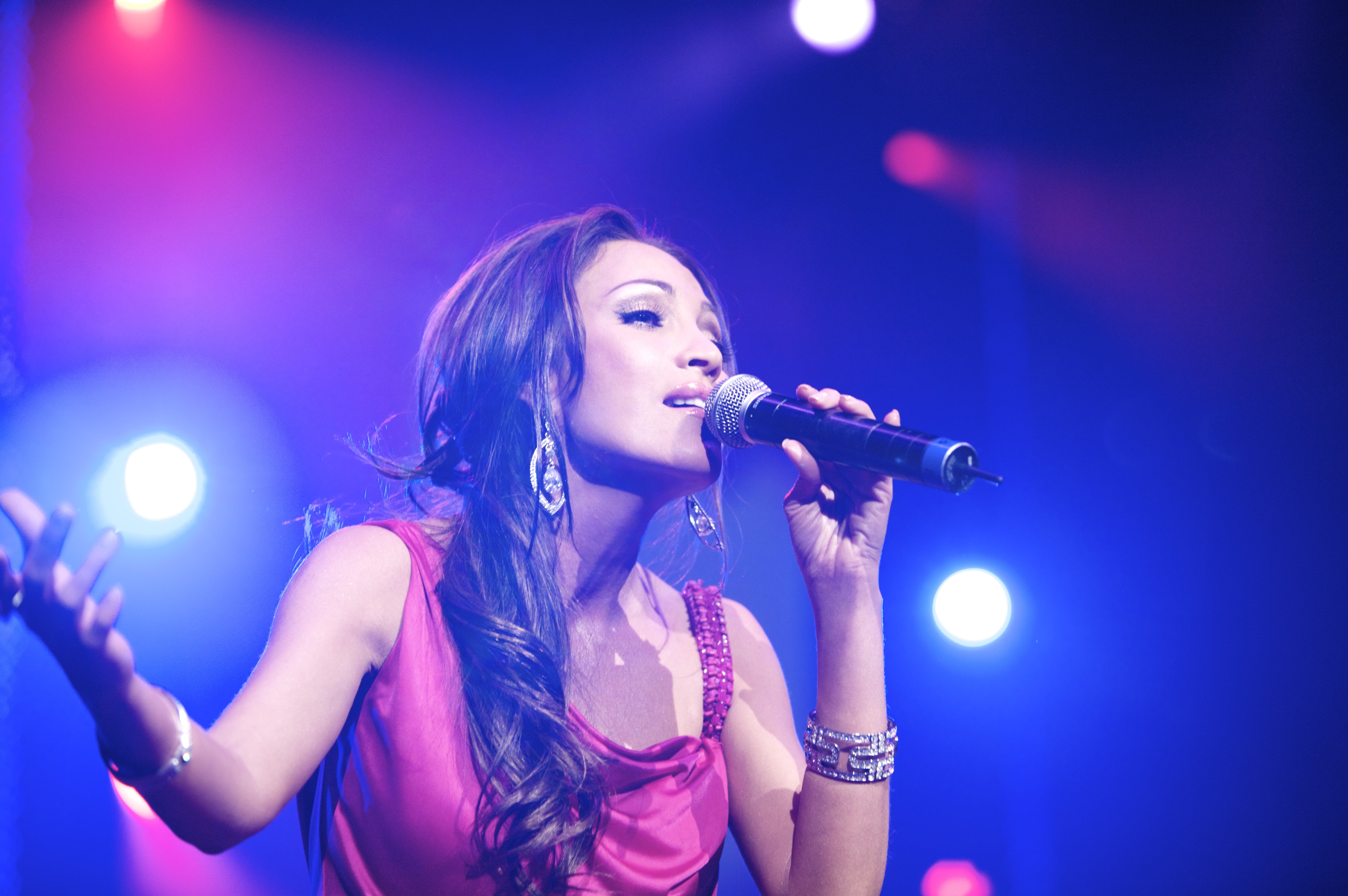 Thanh Hà live at the Mohegan Sun.